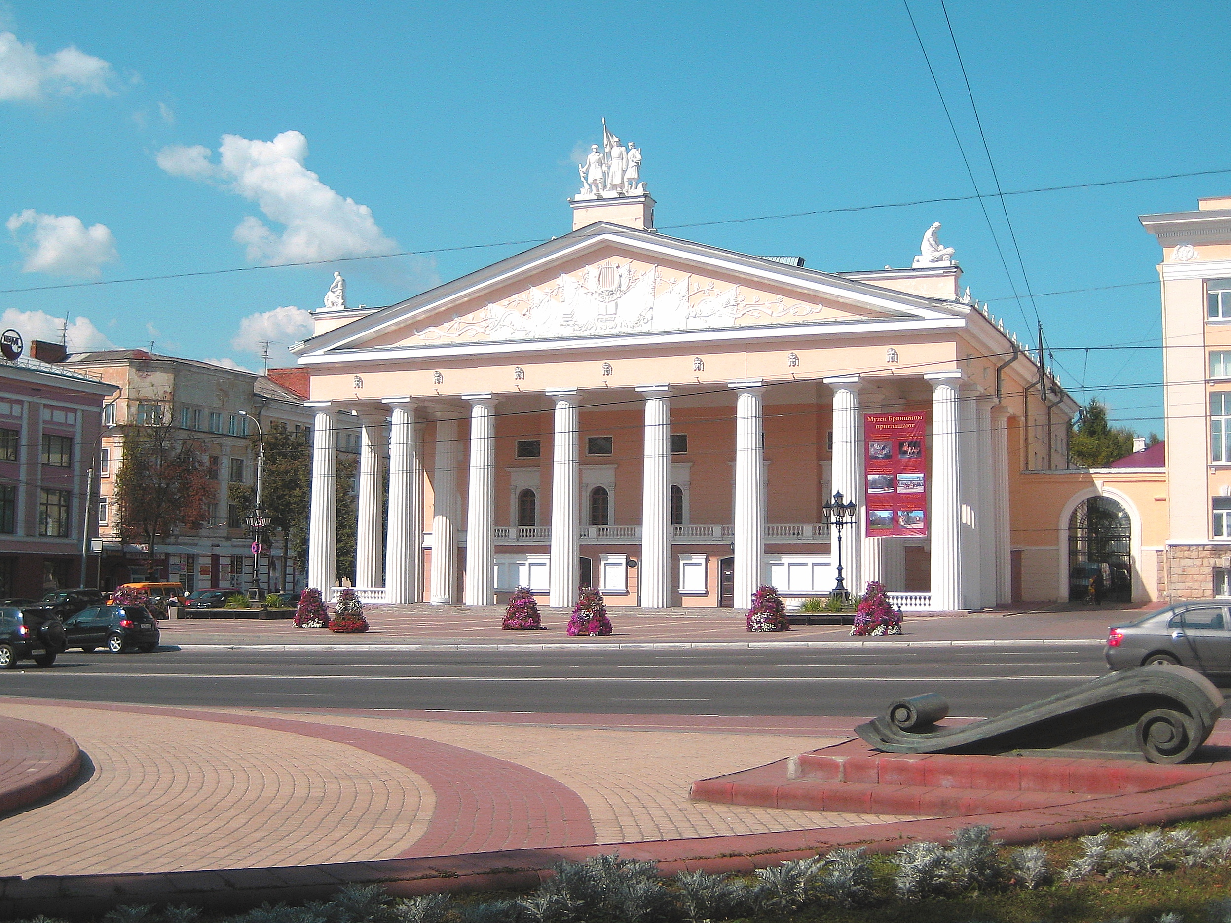 Dramatic Theatre Street Fokin, 26, Bryansk